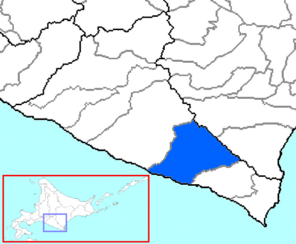 The location of Urakawa in Hidaka Subprefecture, Hokkaido Prefecture, Japan.